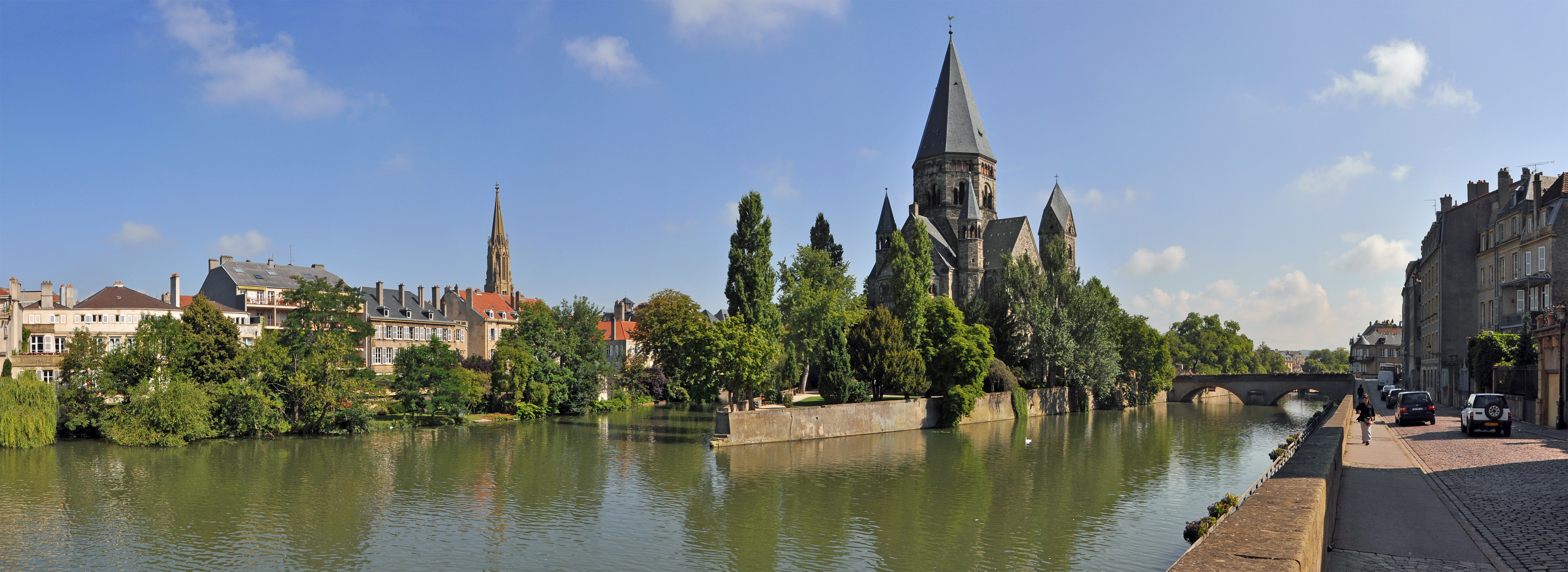 Metz (France): the Moselle, with the Temple Neuf, the Pont des Roches and the Quai Paul Vautrin